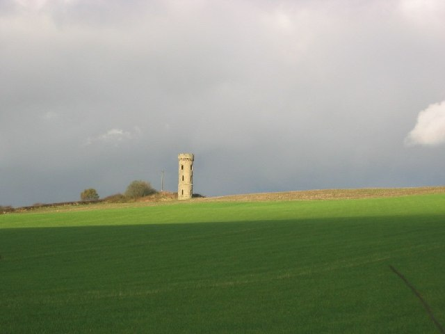 Blair Tower, an architectural folly near Oakley